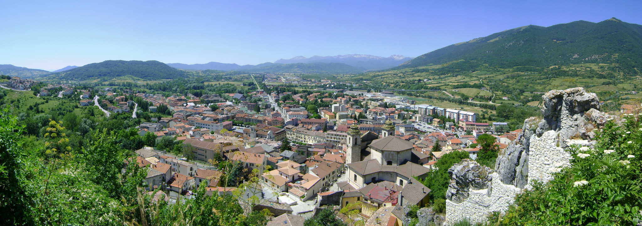 View of Castel di Sangro, in the province of L'Aquila, Abruzzo